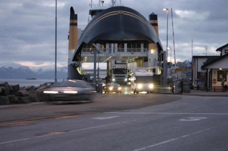 The ferry MF Tresfjord has just arrived in Molde, Norway